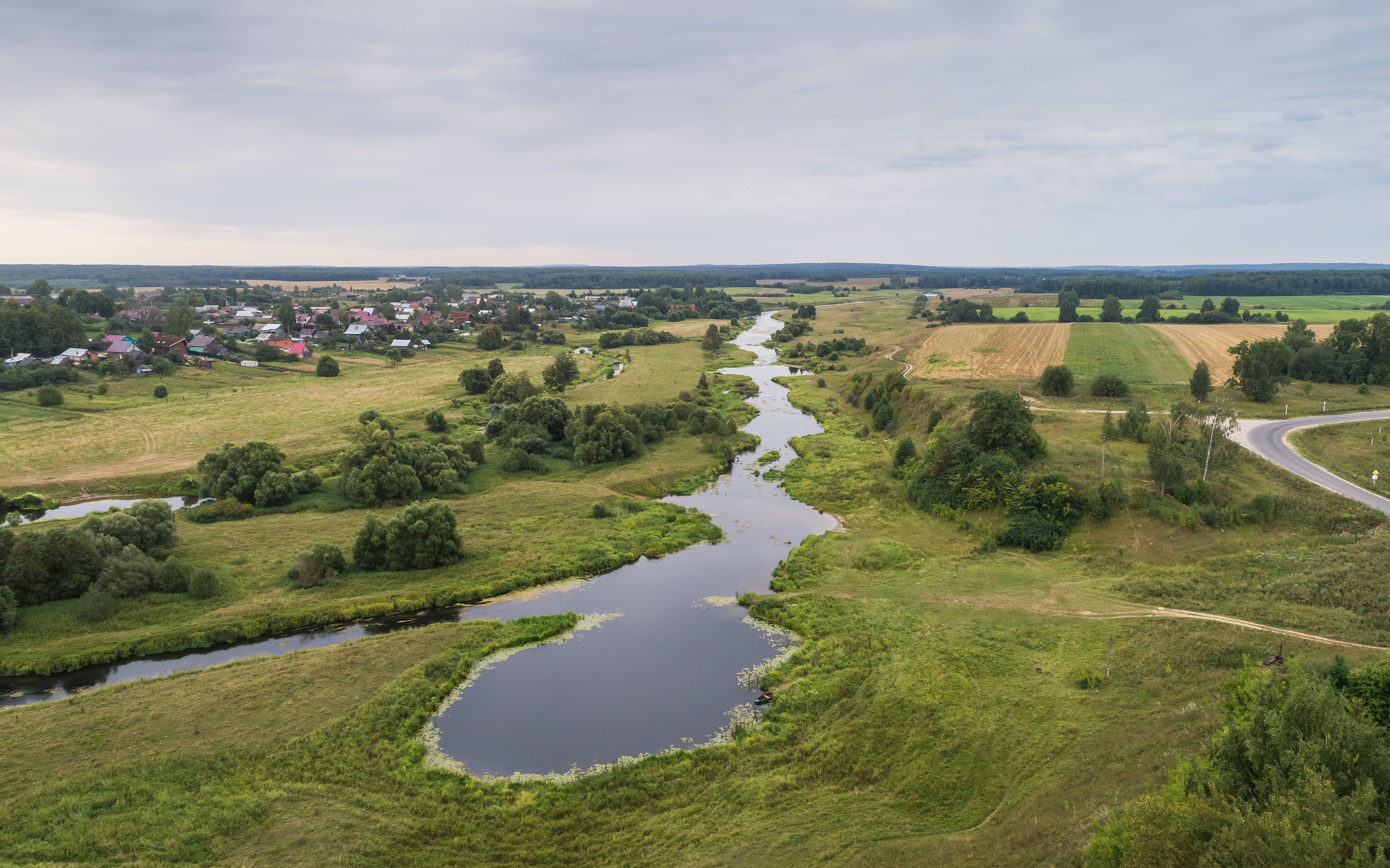 Aerial photo of Dunilovo and Goritsy, Ivanovo Oblast, Russia